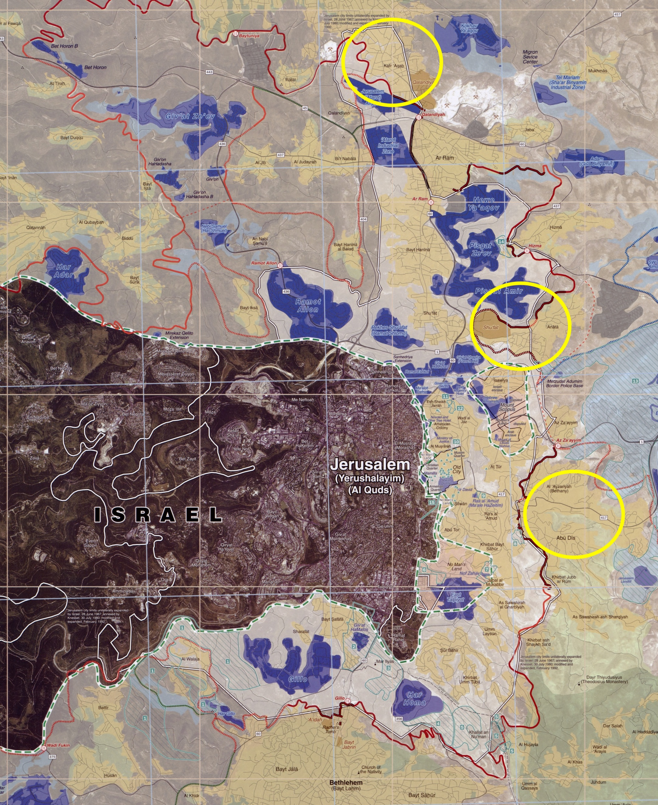 Jerusalem, highlighting areas proposed as Palestinian "East Jerusalem" in the 2020 Trump Peace Plan Per the Peace Plan document: “The sovereign capital of the State of Palestine should be in the section of East Jerusalem located in all areas east and north of the existing security barrier, including Kafr Aqab, the eastern part of Shuafat and Abu Dis, and could be named Al Quds or another name as determined by the State of Palestine”